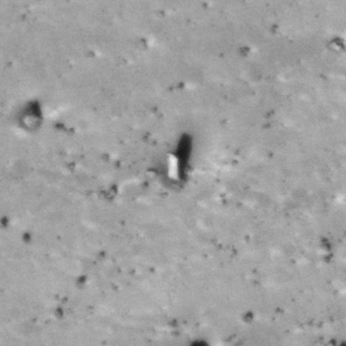 The Mars Monolith (right of center) as taken by the Mars Global Surveyor. It is likely just a boulder. See also File:Monolith55103h-crop.jpg.